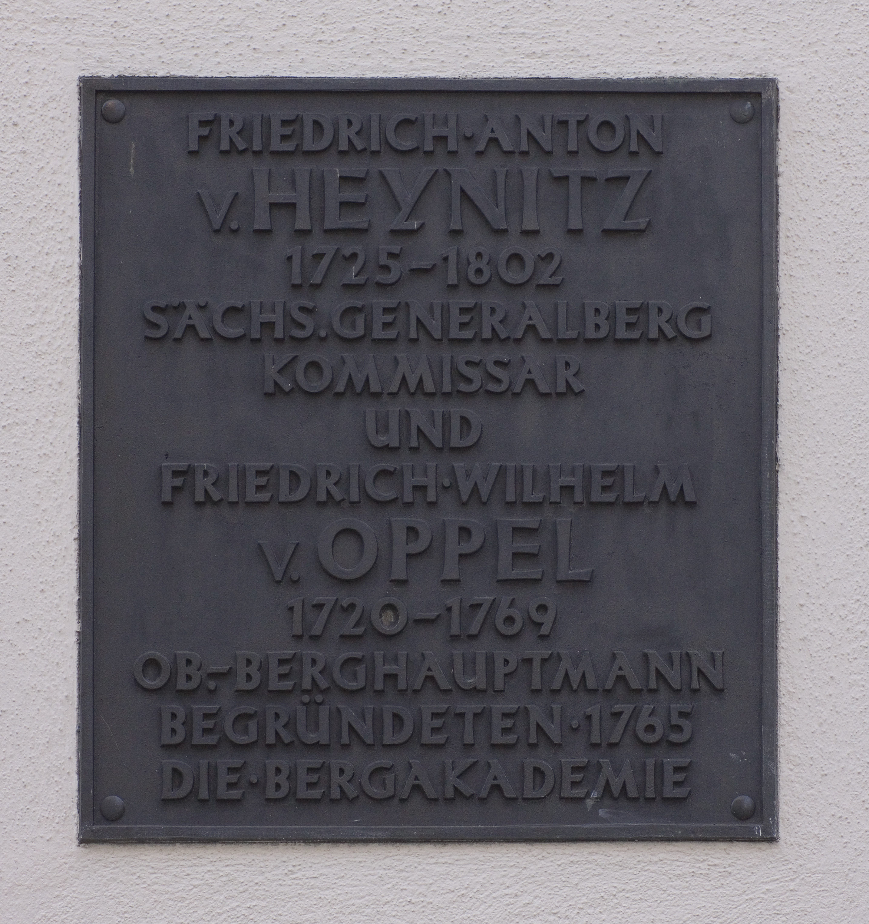 Friedrich Anton von Heynitz and Friedrich Wilhelm von Oppel, plaque in Freiberg, Akademiestraße